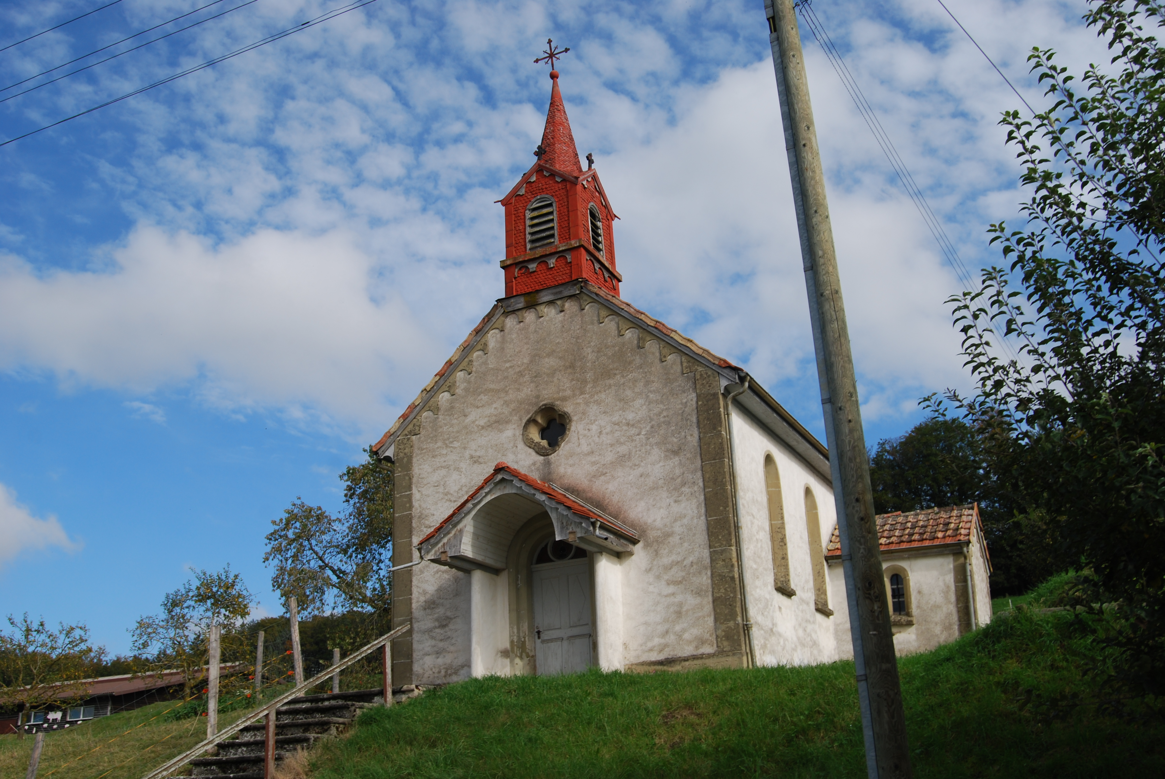 Chapel of Nierlets-les-Bois, municipality of Ponthaux, canton of Fribourg, Switzerland